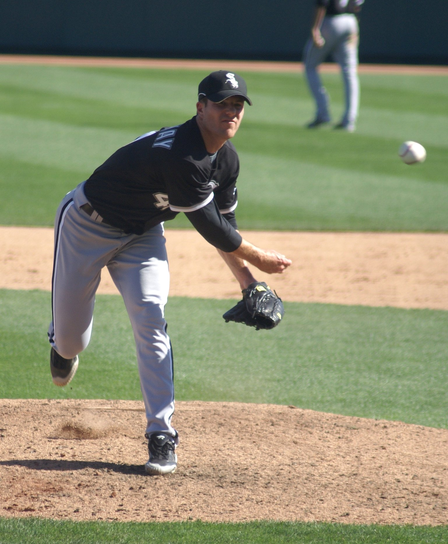 Lance Broadway